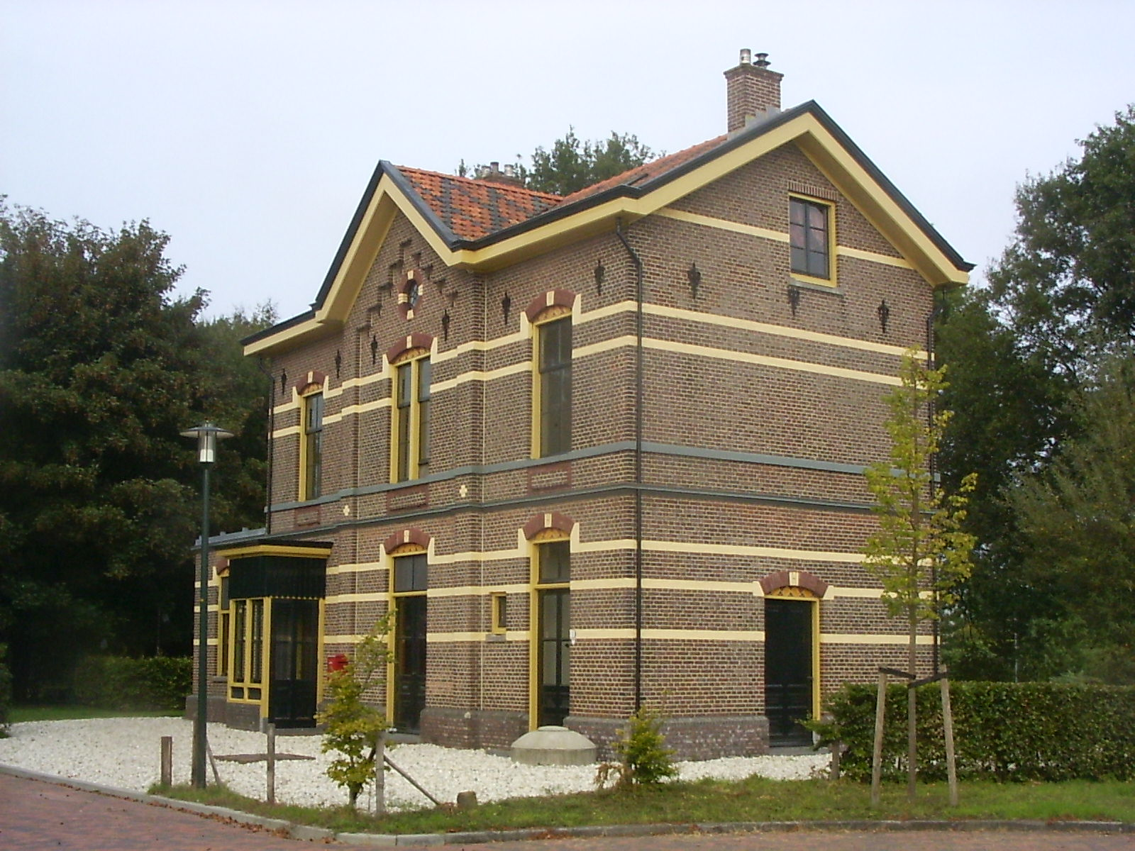 Groenlo railway station, the Netherlands